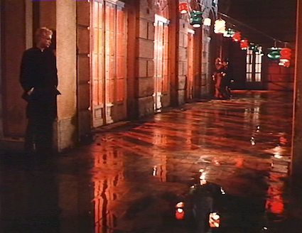 Narcissus in search of Psyche